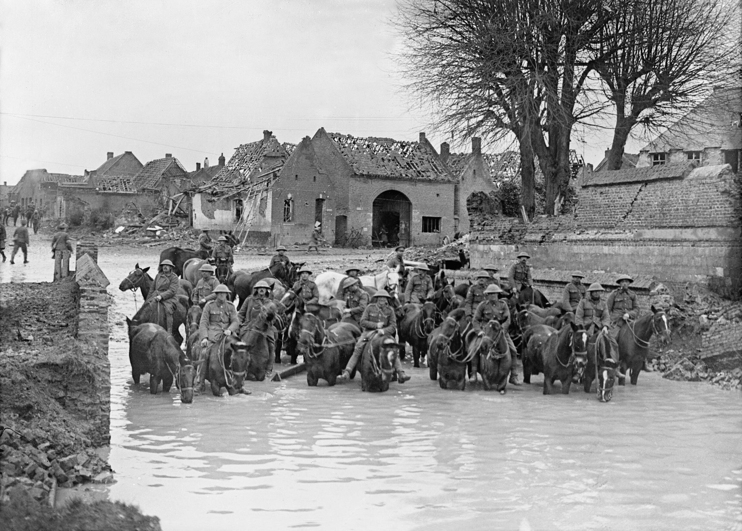 The Battle of Cambrai, November-december 1917 235th Brigade (47th Divisional Artillery) water their horses near Flesquieres, 24 November 1917. The cavalry’s scope for movement was circumscribed by the availability of water for the horses.